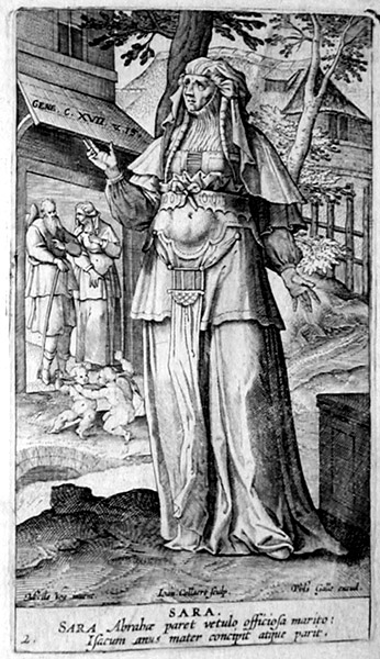 Engraving of Old Testament Bible character Sara